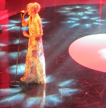 Pixie Lott performing live in Kuala Lumpur, Malaysia on the 26th of May, 2012 as part of her Young Foolish Happy Tour. The real image was cropped for a better view of the article, which can be found here.